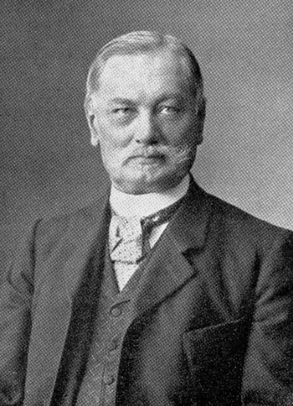 Theodor Hermann Pantenius, Photo, 1901